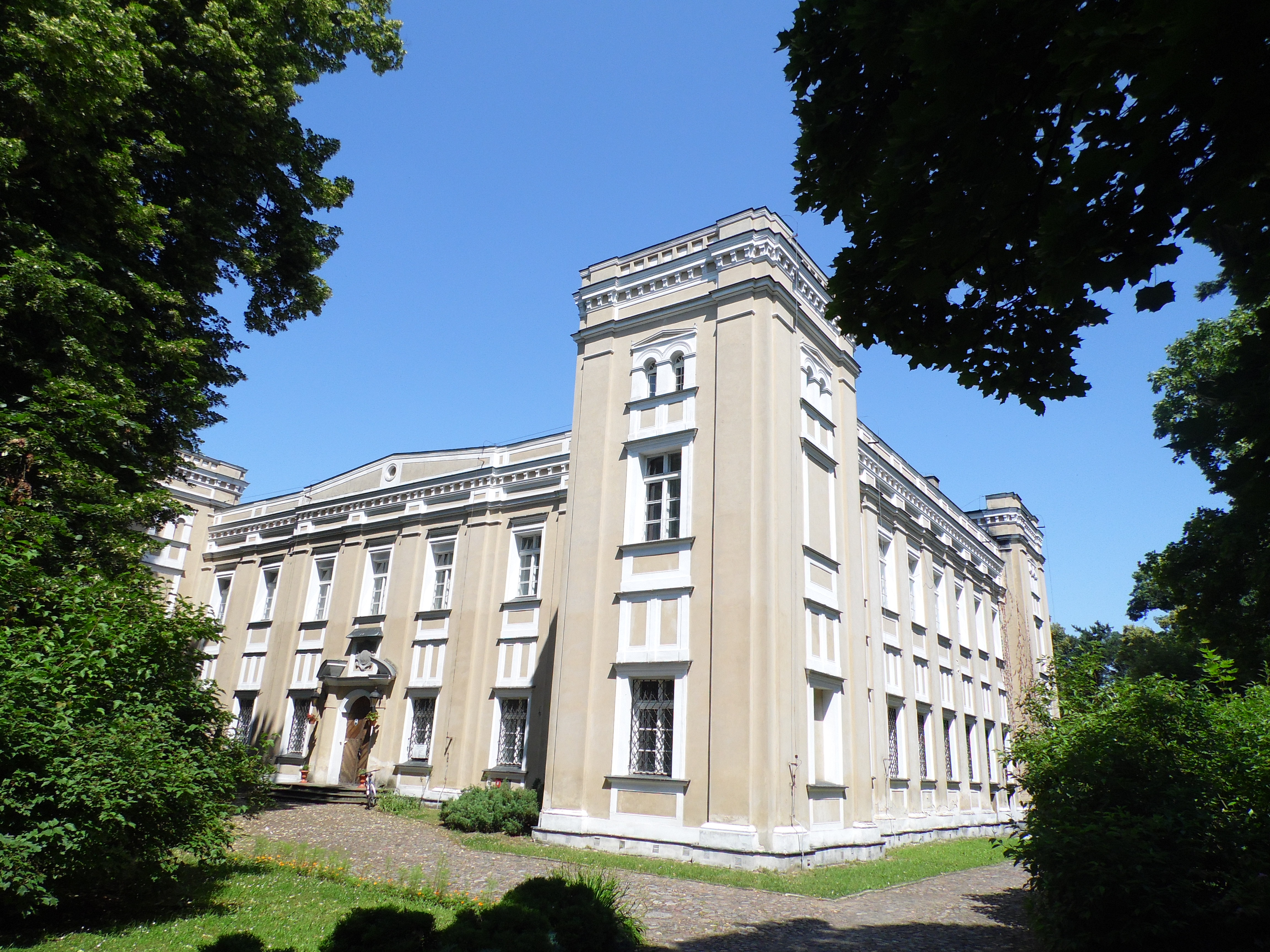 Baroque Palace of the characteristics neo-Renaissance, was built around 1680 - 1690, rebuilt in 1860 / XX century (pd elevation. - E.) Trzebiny / municipality Święciechowa / area. Leszno / province. Greater Poland / Poland